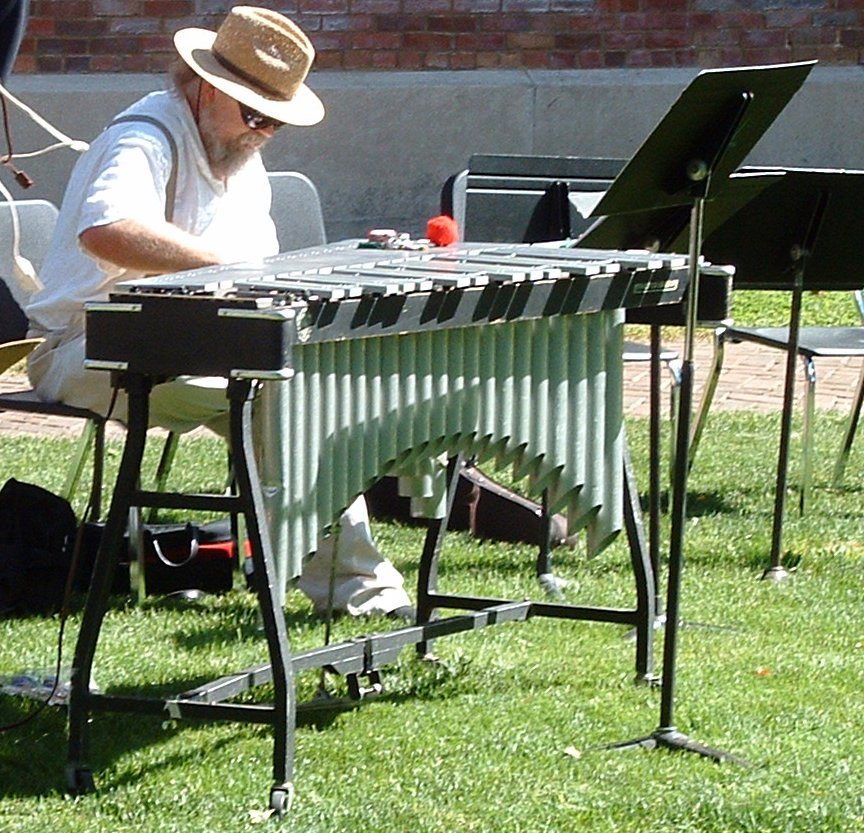 A vibraphone. Photograph taken June 3, 2006 by Kelly Martin.